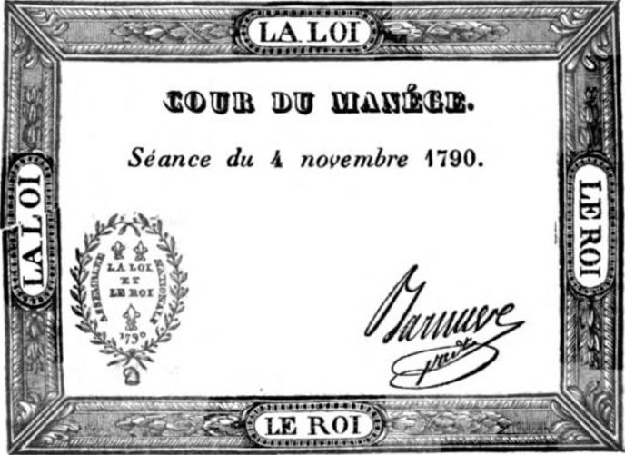 Access Card at the Salle du Manège signed by Barnave.